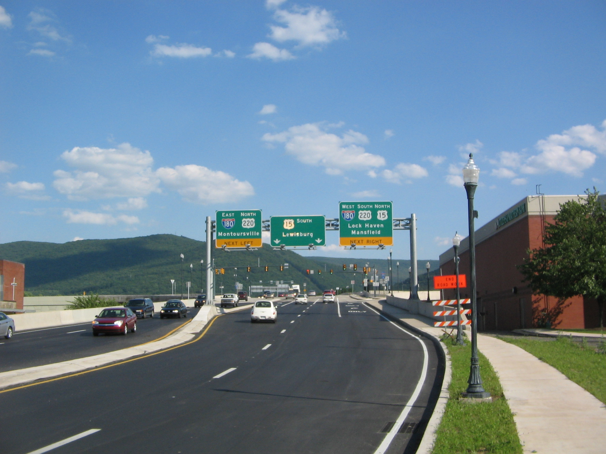 Despite the file name, this is the view looking SOUTH of Market Street Bridge over West Branch Susquehanna River, connecting Williamsport and South Williamsport, Lycoming County, Pennsylvania, USA, US Route 15